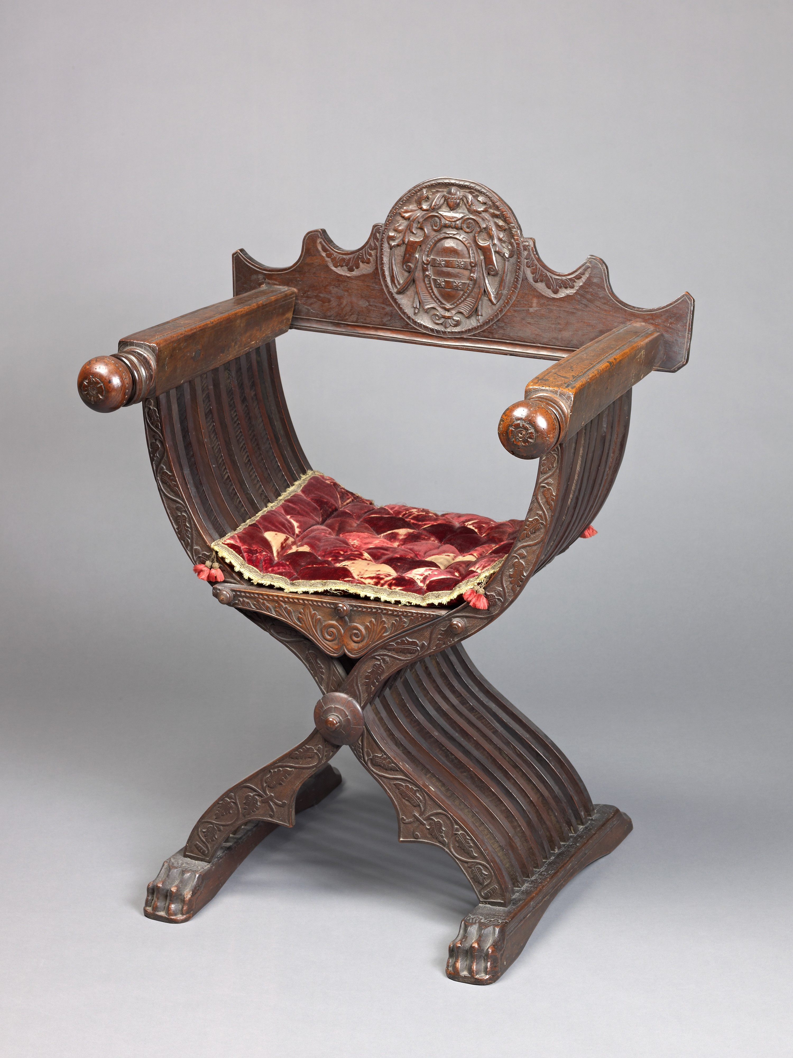 Italian; Armchair; Textiles-Velvets